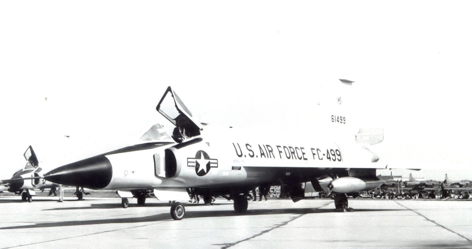 438th Fighter-Interceptor Squadron Convair F-102A-80-CO Delta Dagger 56-1499 507th Fighter Group, Kincheloe AFB, Michigan, July 1958, (Photo taken at Fargo ANG Base, North Dakota)